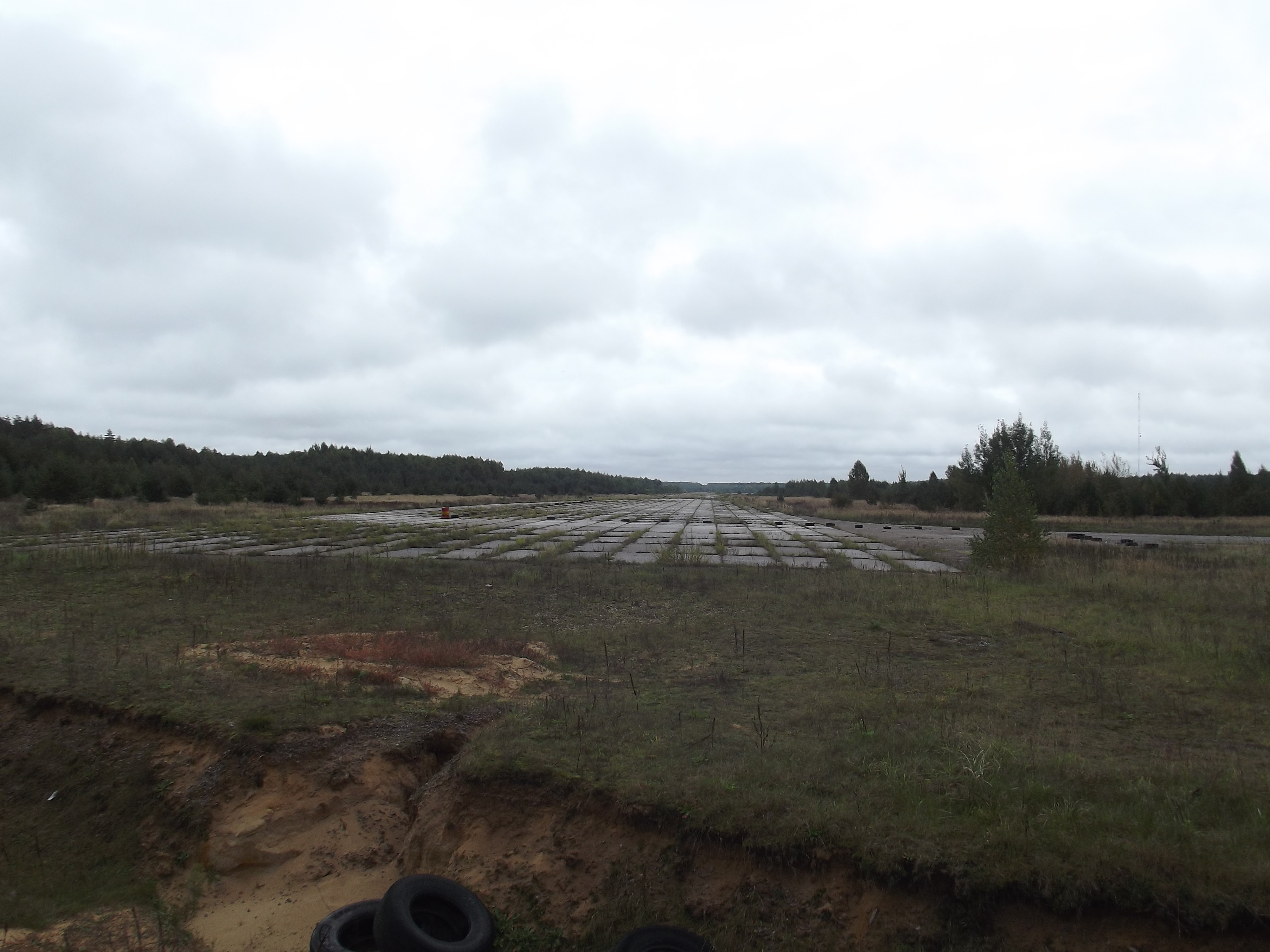 Airfield by Kazlų Rūda, Lithuania